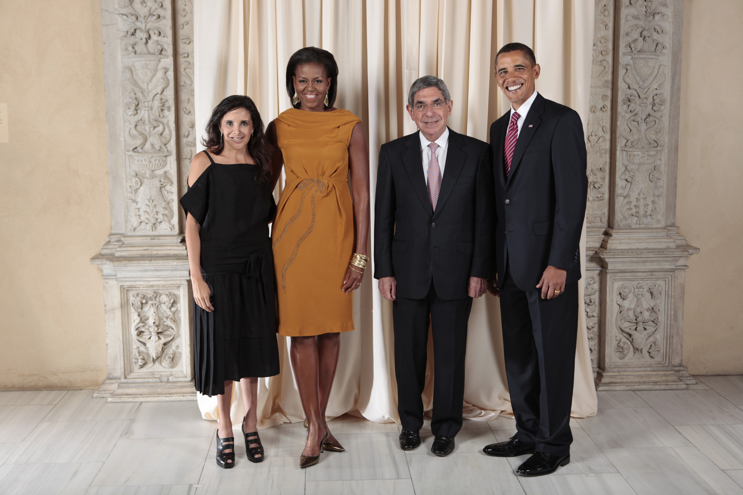 President Barack Obama and First Lady Michelle Obama pose for a photo during a reception at the Metropolitan Museum in New York with President Óscar Arias Sánchez, President of the Republic of Costa Rica, and his daughter, Miss Sylvia Arias.